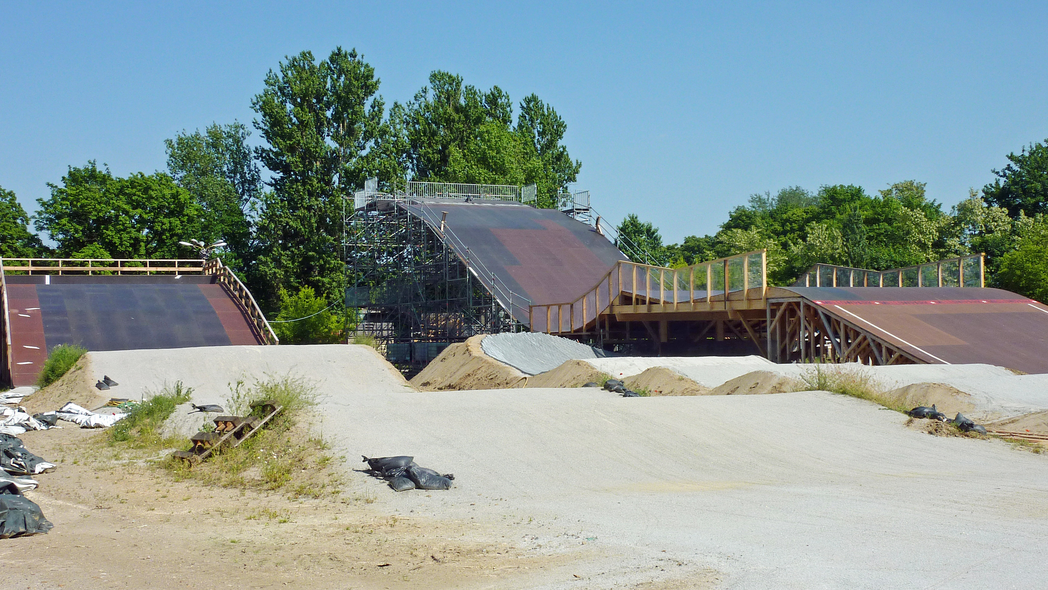 Rampen im Mellowpark in Berlin-Oberschöneweide